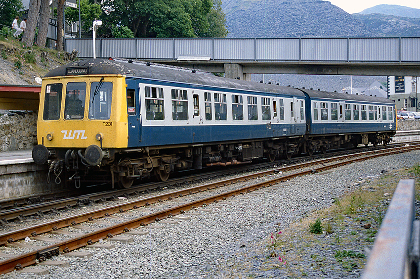 Tyseley based BR class 114 T231 at Blaenau Ffestiniog consisting of vehicles 53036+54006 in BR blue and grey livery with West Midlands branding. Scanned from a Kodachrome 35mm slide.